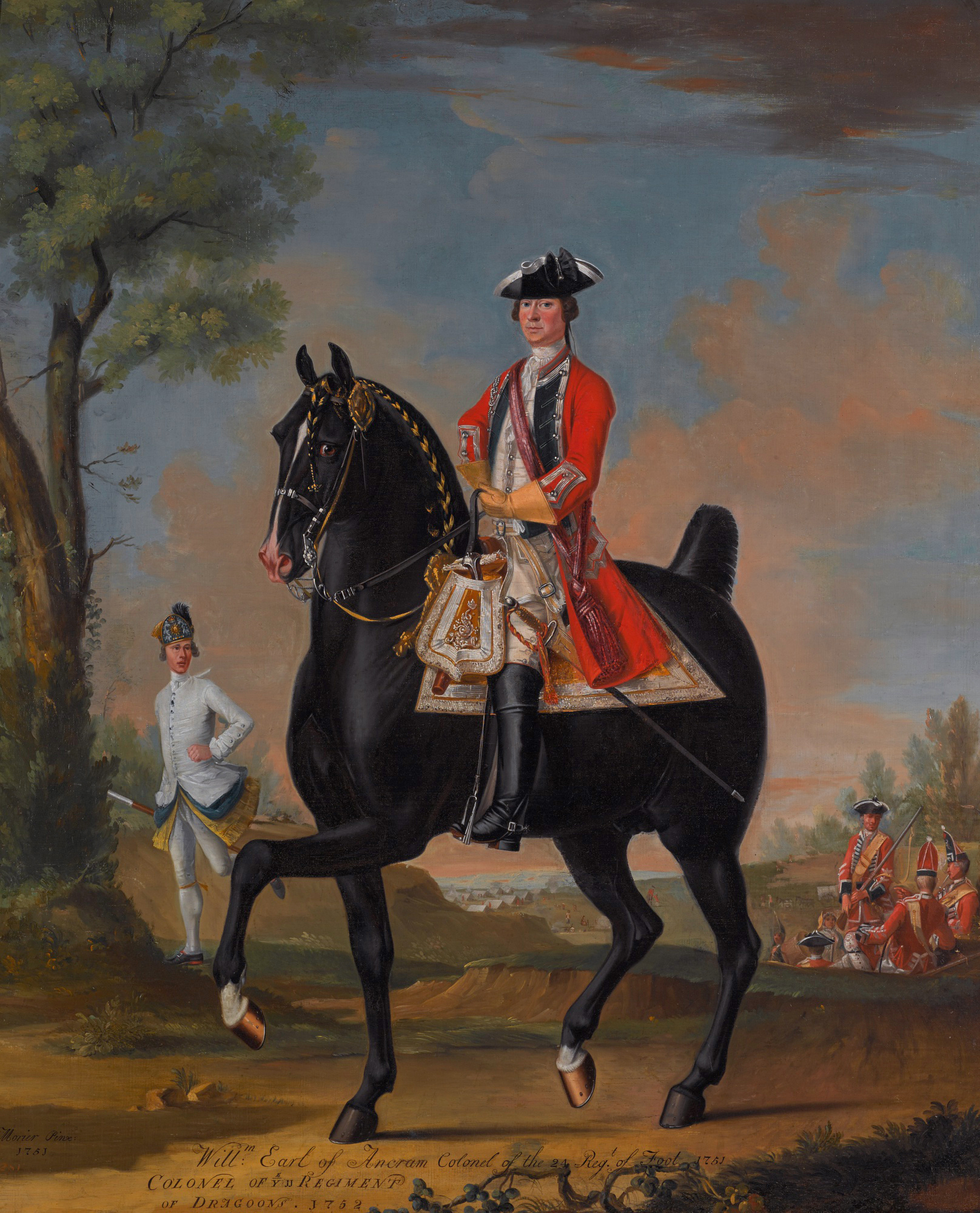 William Kerr, 4th Marquess of Lothian on a charger, his aide-de-camp to the left, and a military encampment beyond